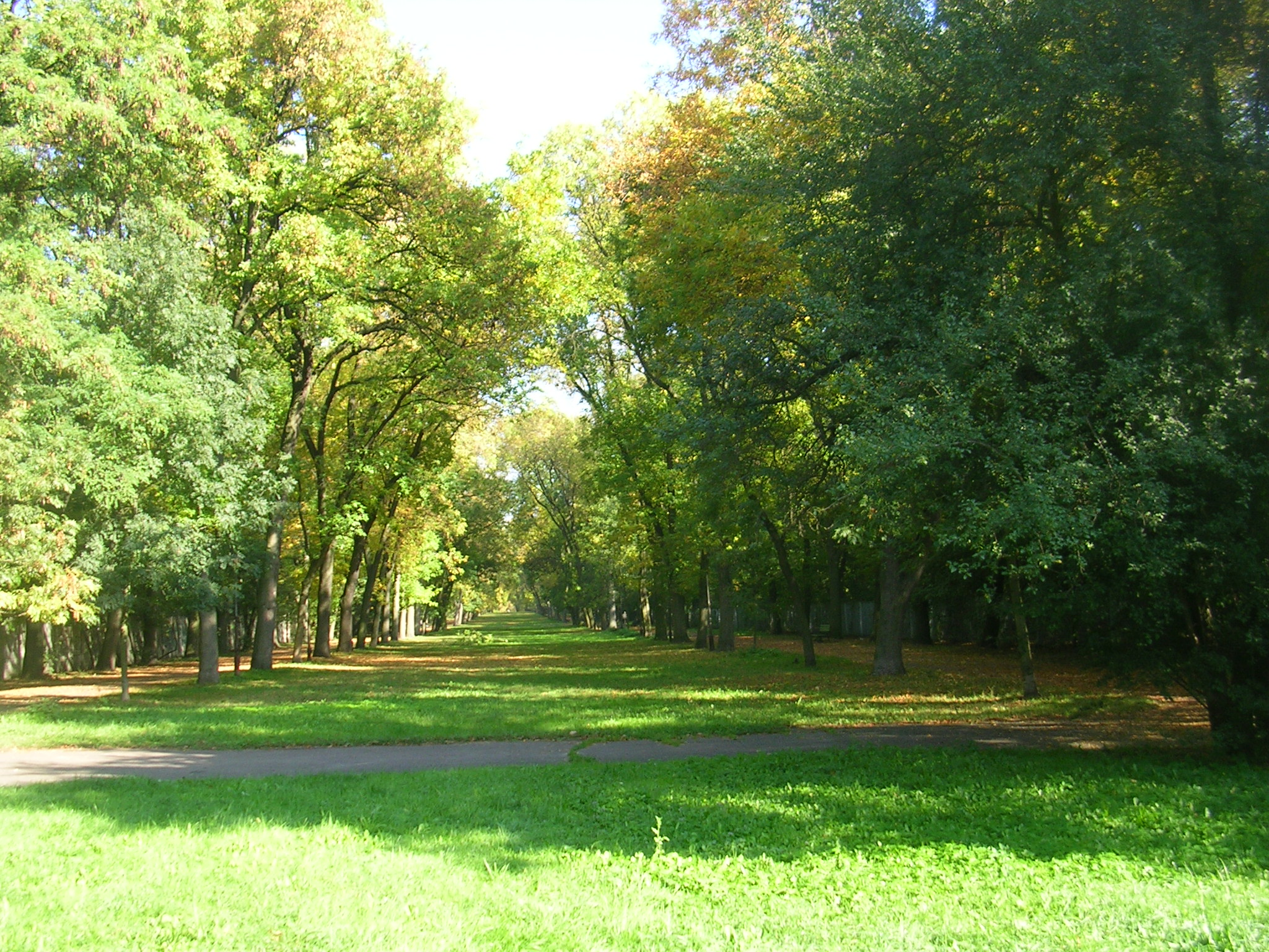 A nice and small park near my home.